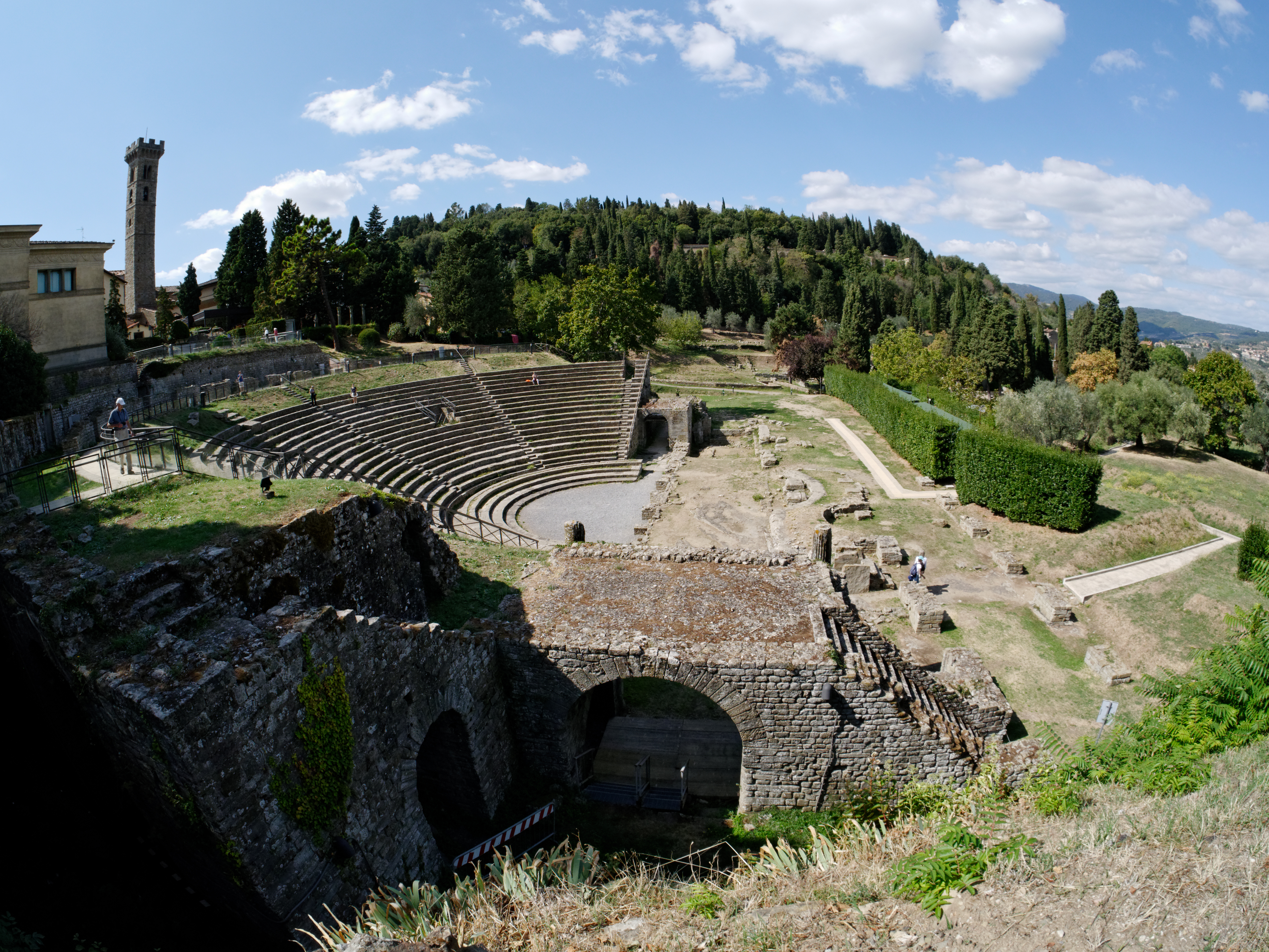 Ancient Roman theatre, archaeological site in Fiesole, Tuscany, Italy.